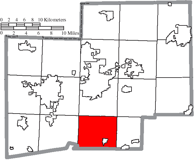 Map of the municipal and township boundaries of Stark County, Ohio, United States, as of the 2000 census, with the location of Pike Township highlighted. Township borders are shown only in unincorporated areas in order to differentiate incorporated and unincorporated areas more clearly.